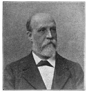 Bernhard Oebeke